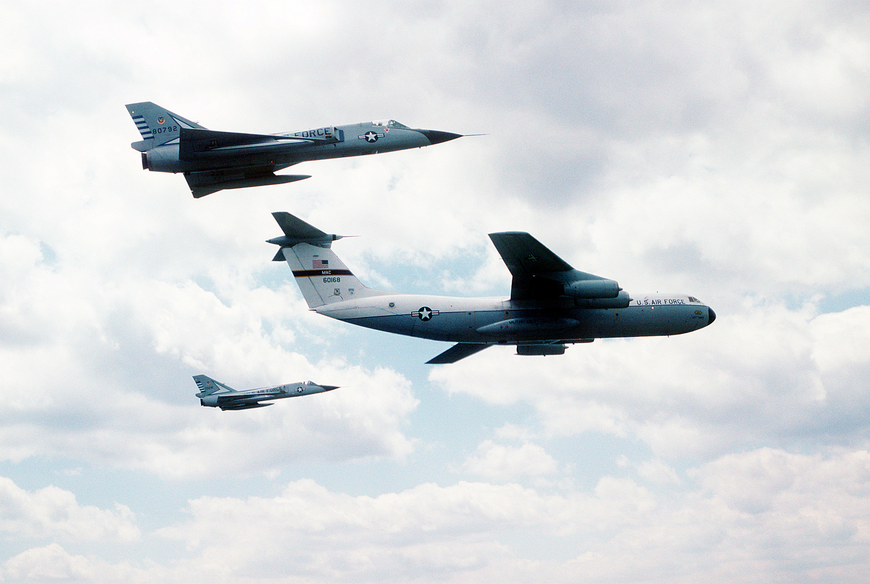 Two U.S. Air Force Convair F-106A Delta Dart (s/n 58-0792, 57-0241) escorting a Lockheed C-141A Starlifter (s/n 66-0168) on 15 April 1980 in the vicinity of Charleston Air Force Base, South Carolina (USA). The F-106As were assigned to the 48th Fighter Interceptor Squadron, based at Langley AFB, Virginia (USA), and the C-141A was assigned to the 437th Military Airlift Wing at Charleston.